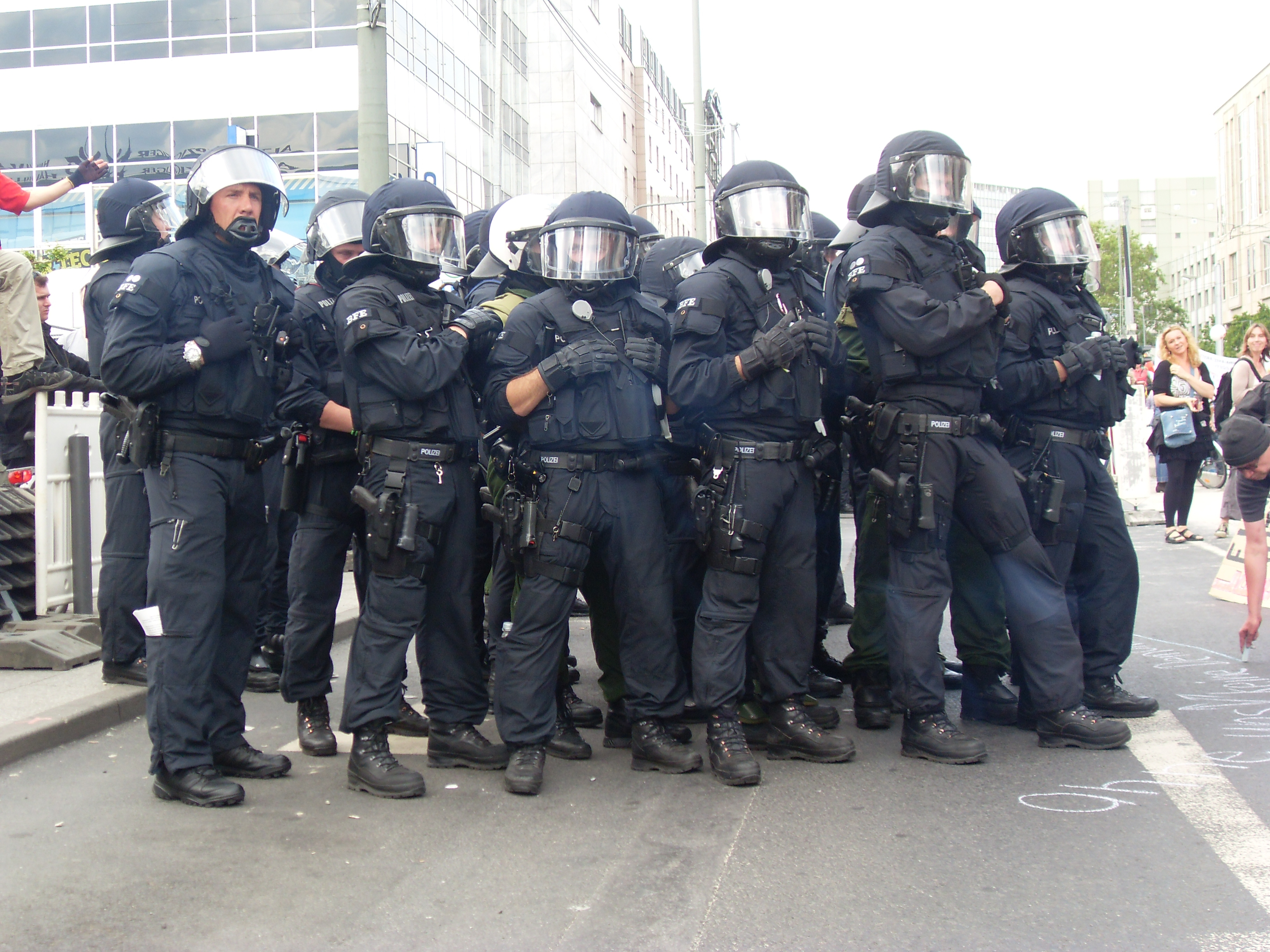 German police at Blockupy Frankfurt on May 19, 2012